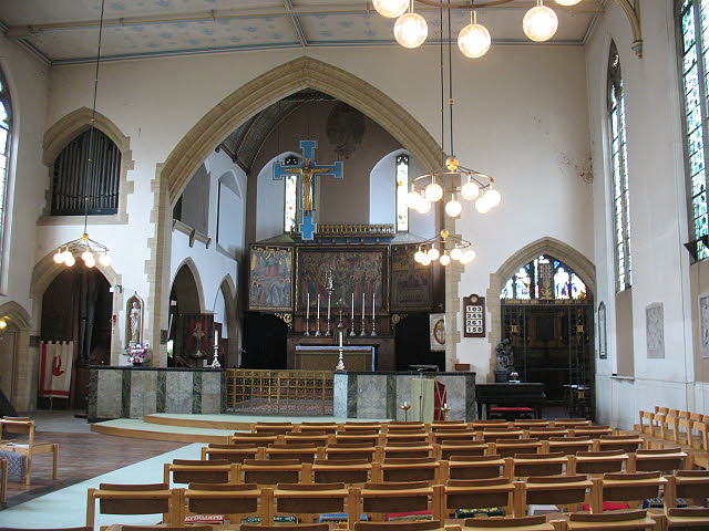 Inside the parish church of St John the Divine, Kew Road, Richmond, southwest London, looking southeast to the chancel